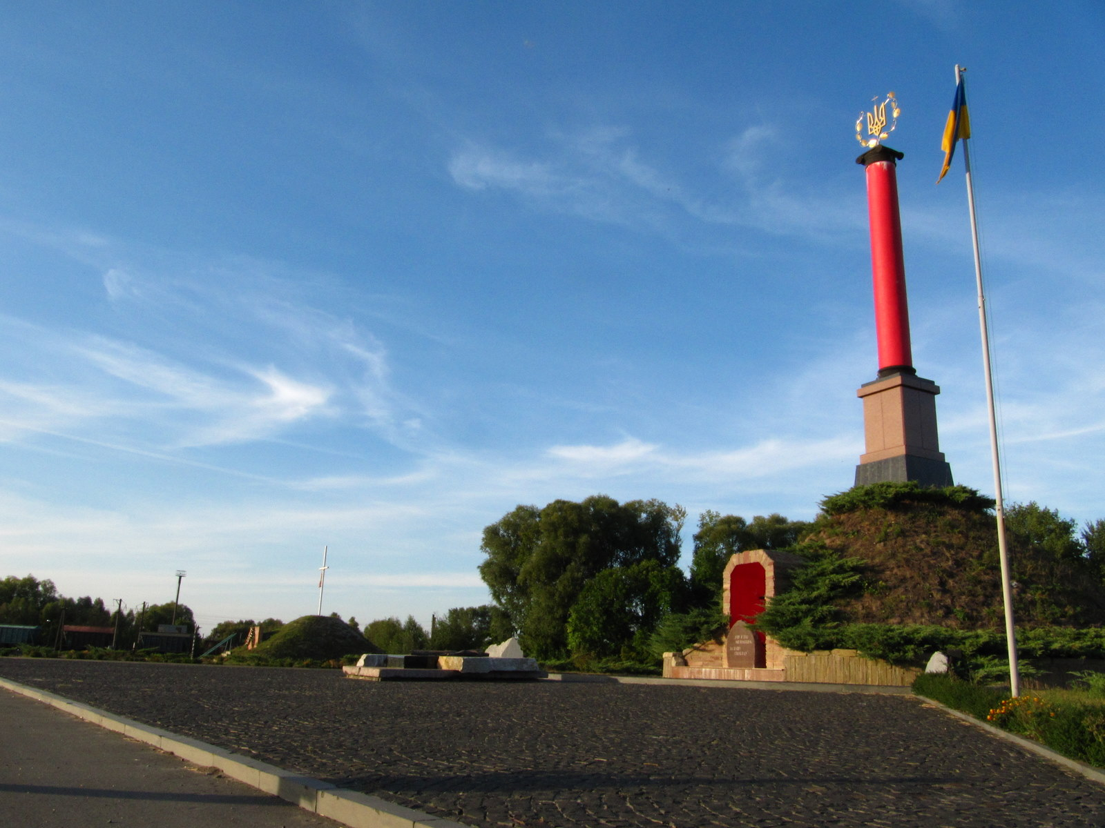 Top of the Kruty Heroes Memorial.